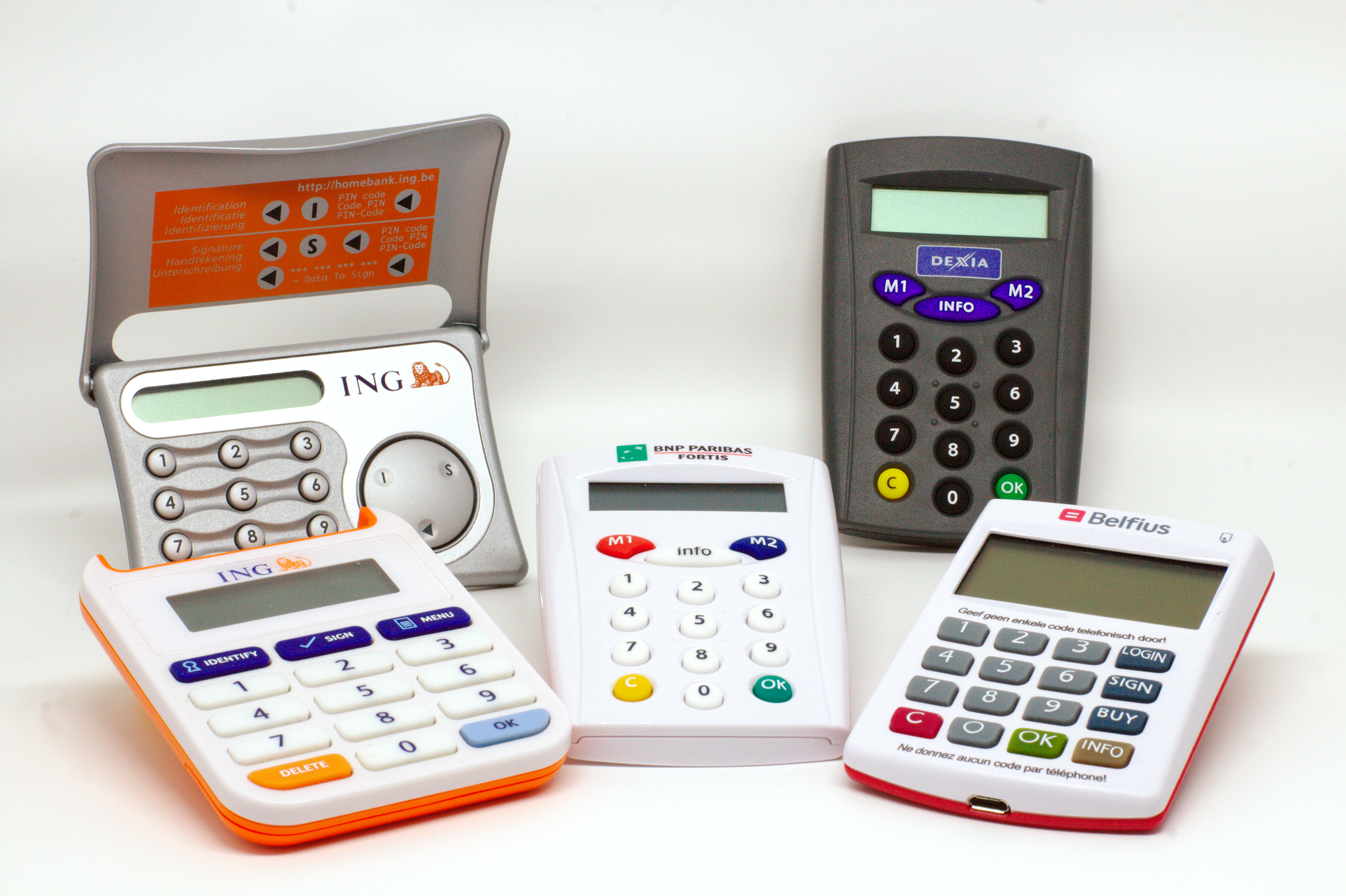 Five models and three different generations of security token devices for online banking. The newer models are in the foreground.